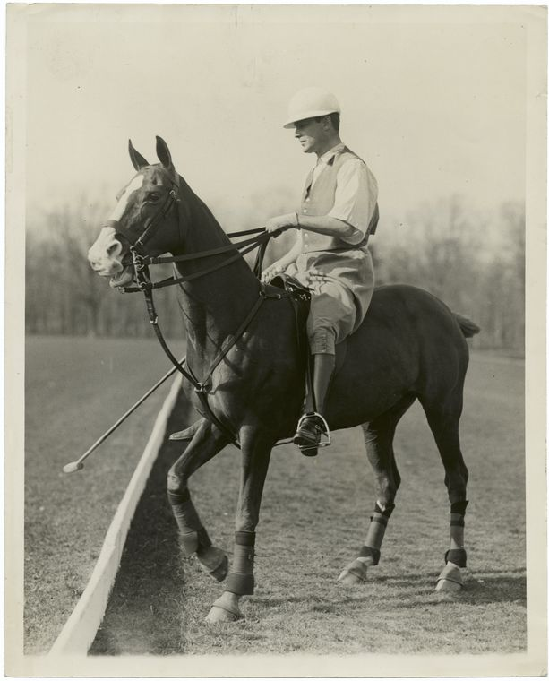 Monte Waterbury (1876-1920), circa 1914 photograph, was an American polo player that helped win the Westchester Cup on several occasions.